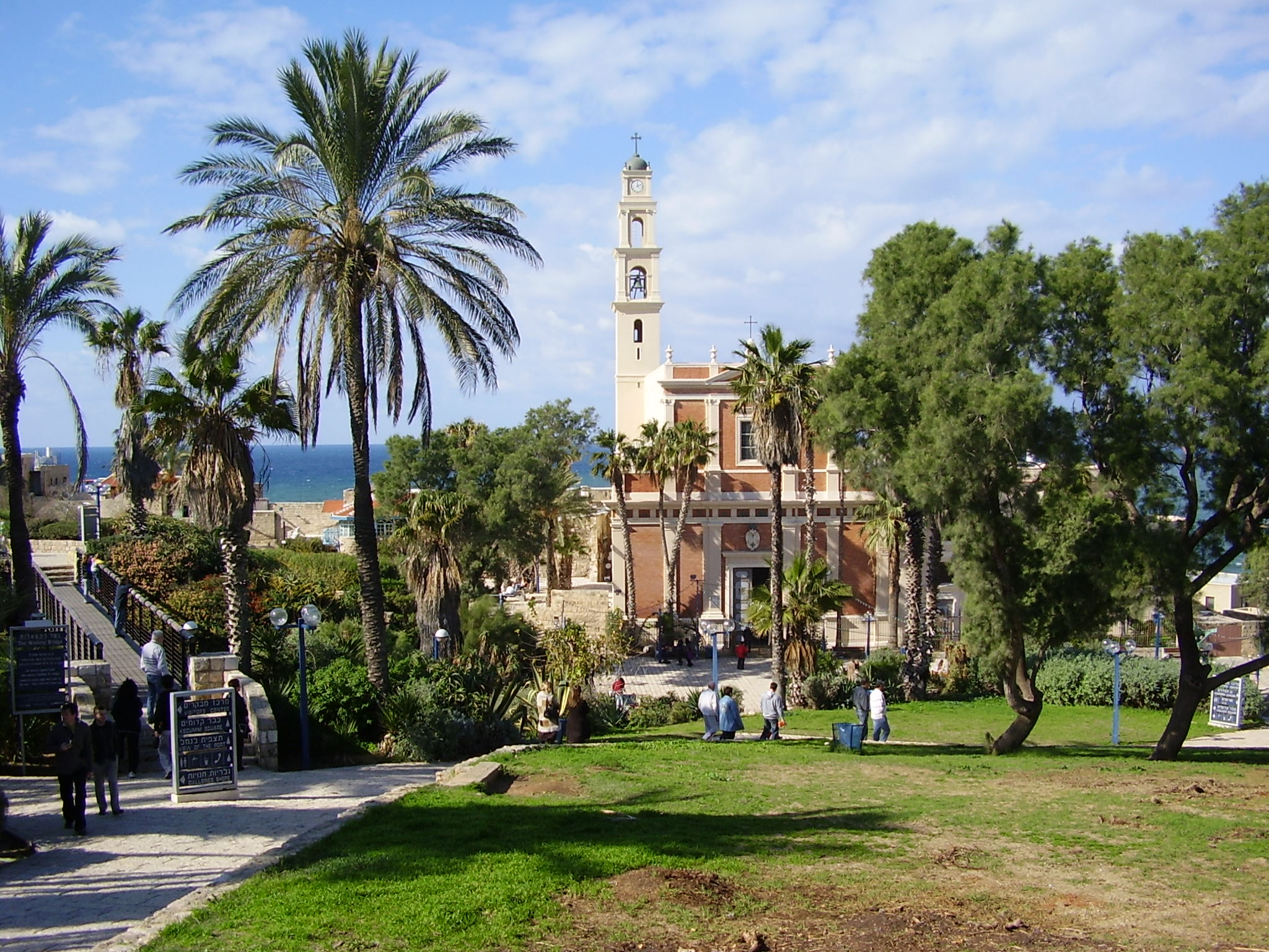 St. Peter's church, Jaffa, Israel